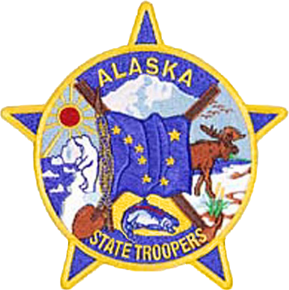 an Alaska State Trooper patch, Made with Photoshop.